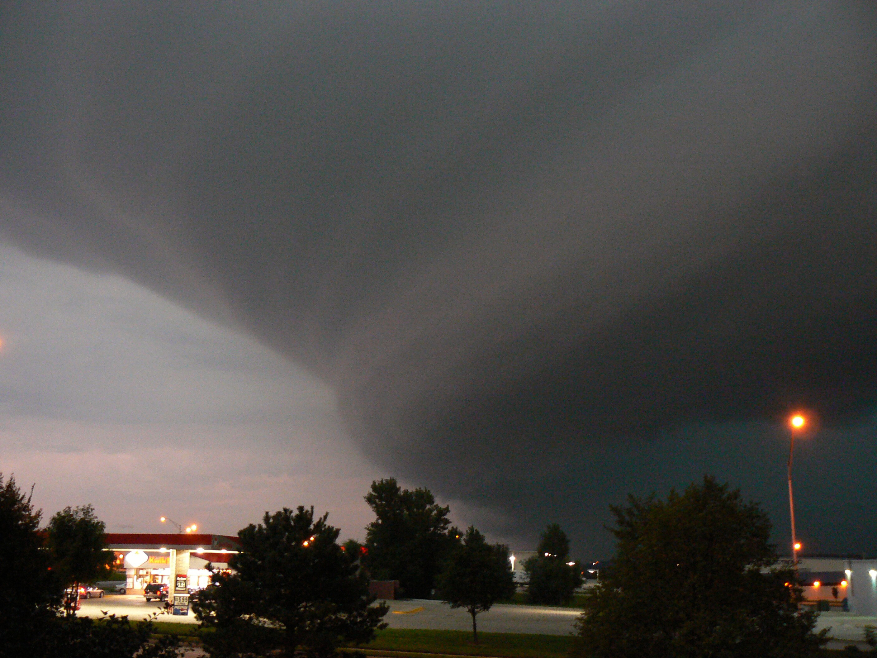 Derecho storm front approaching Sarpy County, Nebraska